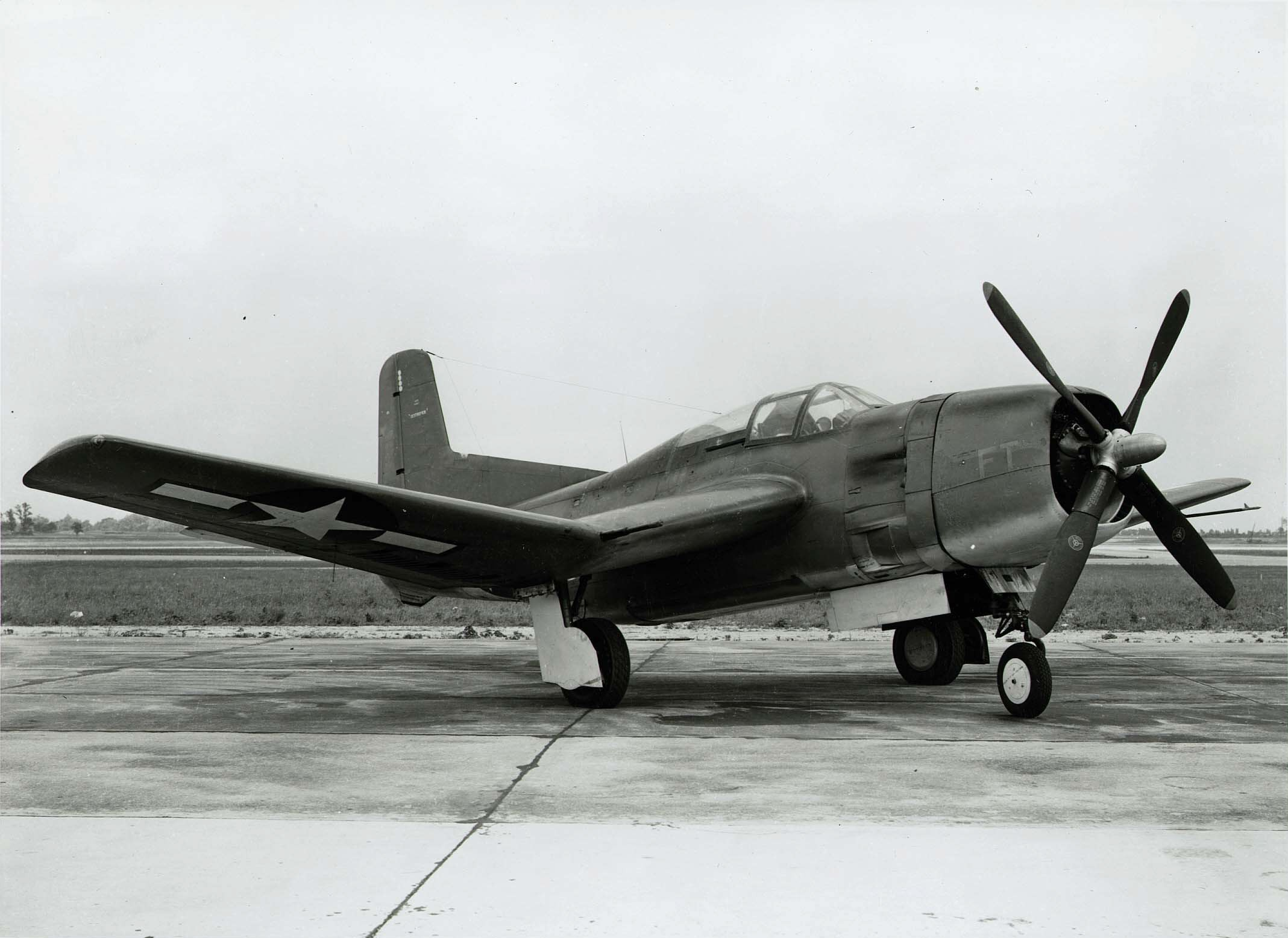 A U.S. Navy Douglas BTD-1 Destroyer at the Naval Air Station Patuxent River, Maryland (USA), circa 1945.